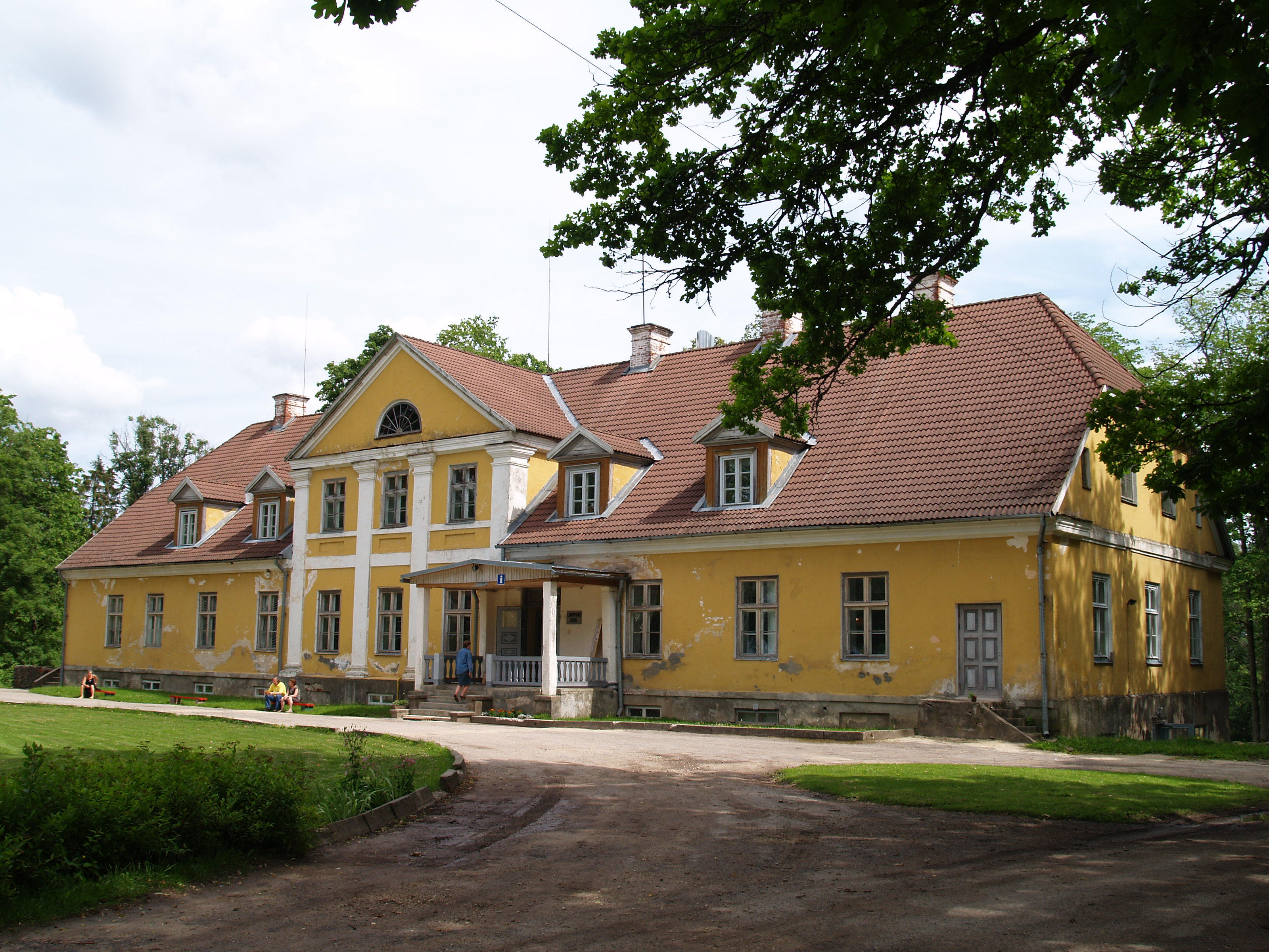 Lahmuse manor house. Today part of Lahmuse school.